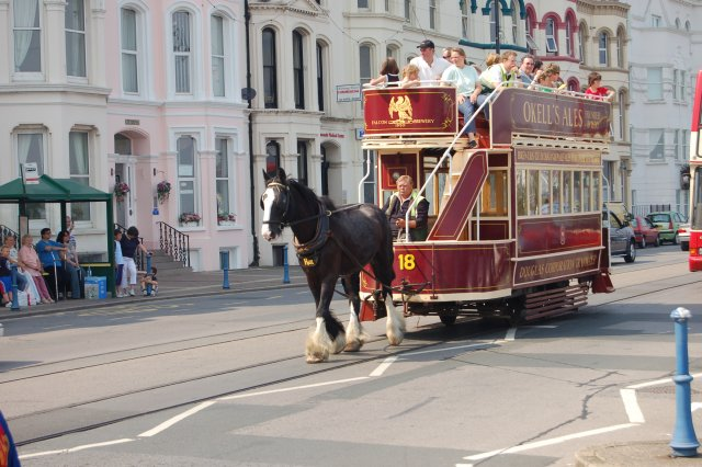 Horse Drawn tram on Douglas Seafront Double decker horse drawn tram no 18 on Douglas sea front